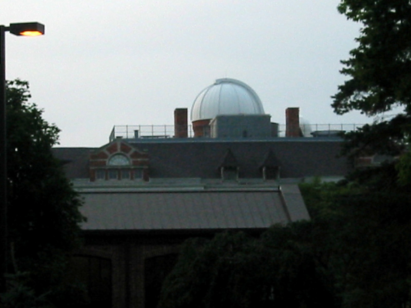 Sherzer Observatory in the twilight. Sherzer Observatory Homepage, [ Sherzer